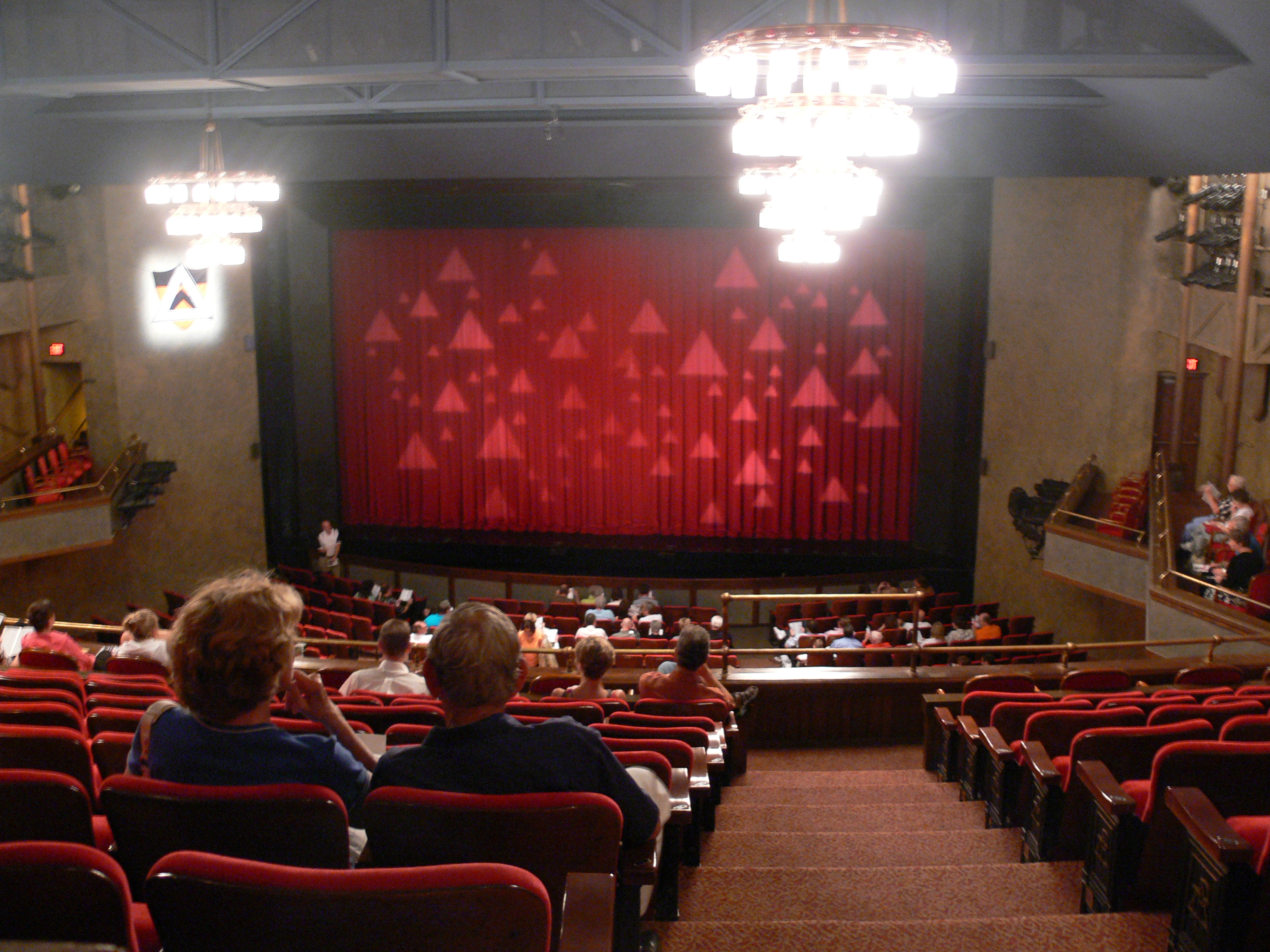 Auditorium (seen from the balcony) in McCarter Theatre (before a Princeton Triangle Club show) Princeton, New Jersey